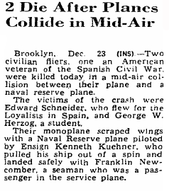 Eddie August Schneider on December 23, 1940 in an article written by International News Service and published in the Washington Post